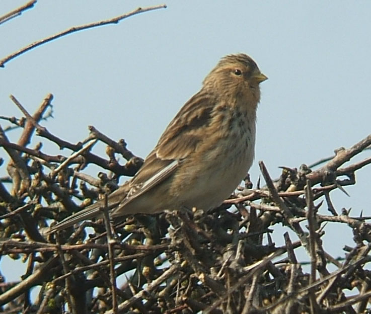 Twite Linaria flavirostris, female, Druridge Bay, Northumberland, UK